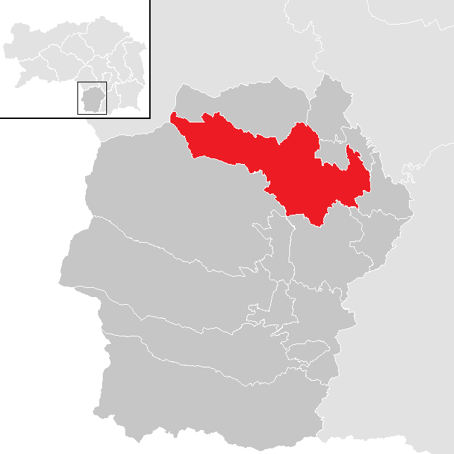 District Deutschlandsberg, Styria, Austria